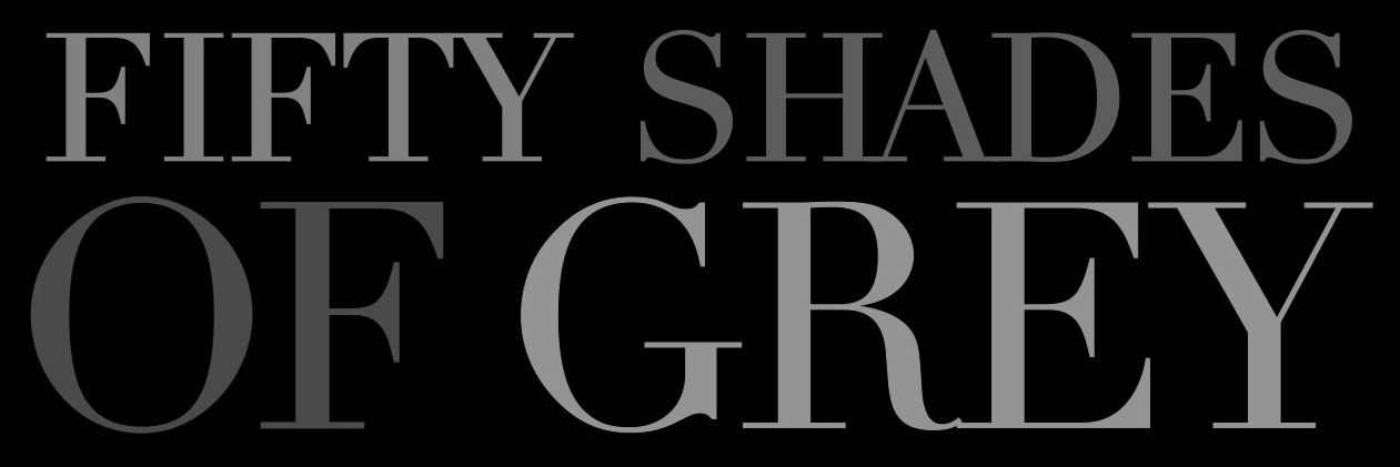 Official logo of the Fifty Shades of Grey movie